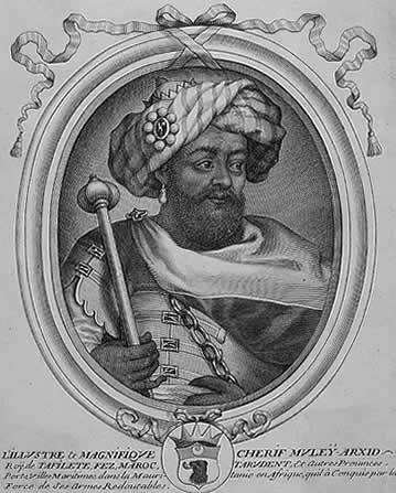 Mulay_al-Rashid